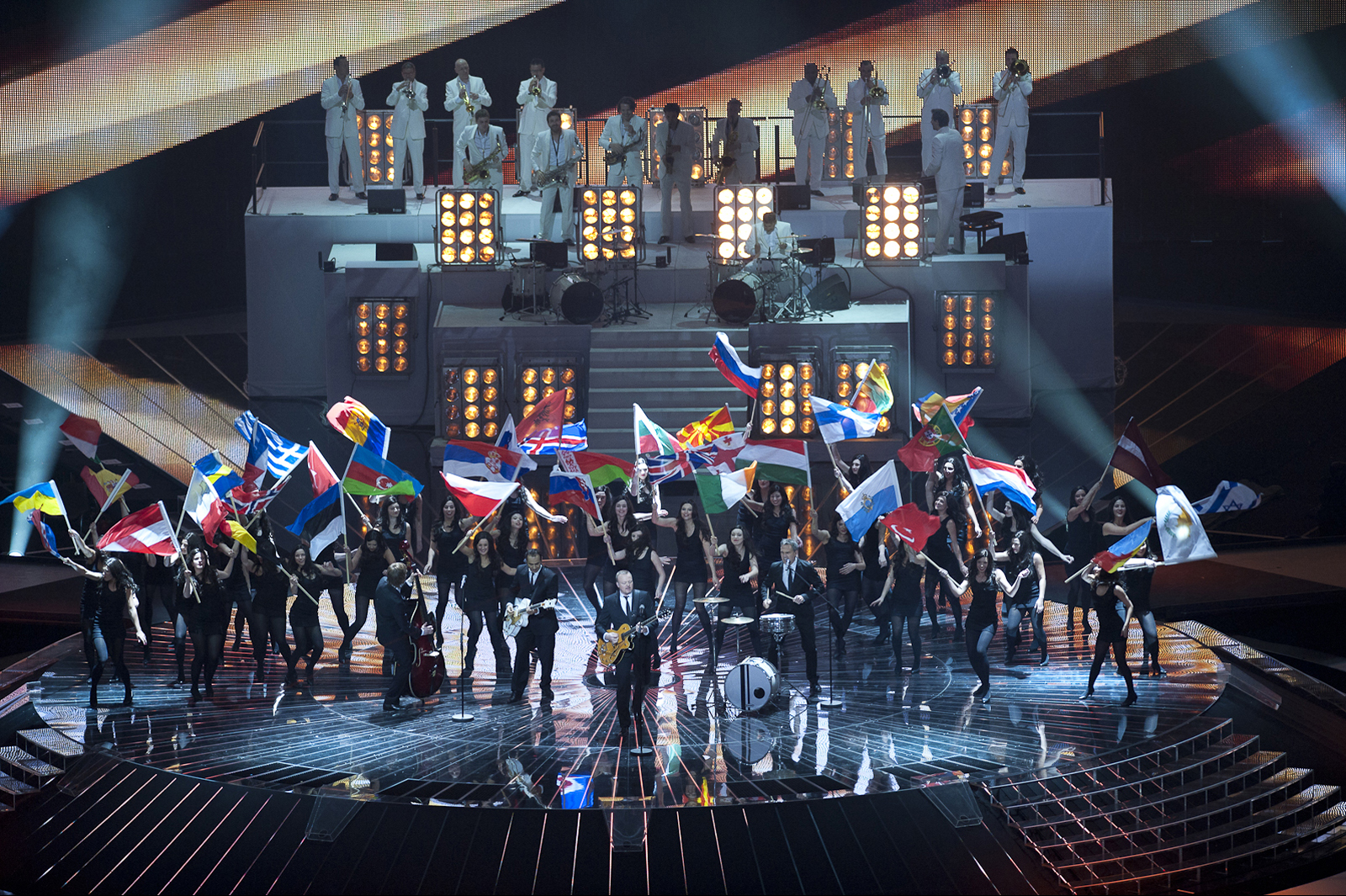 Stefan Raab performing "Satellite" at opening act of Eurovision Song Contest 2011 in Düsseldorf